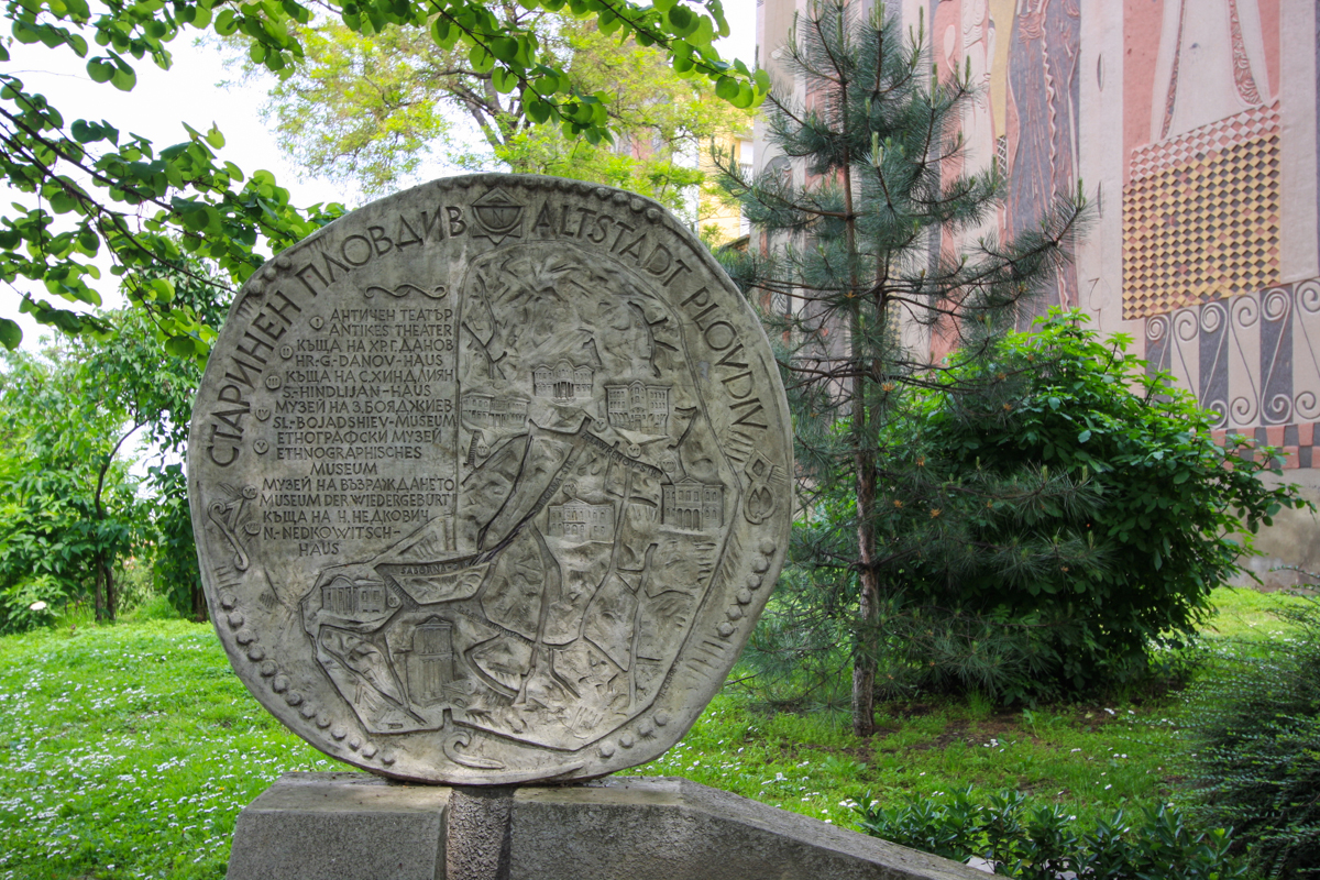 Stone map of Plovdiv old town